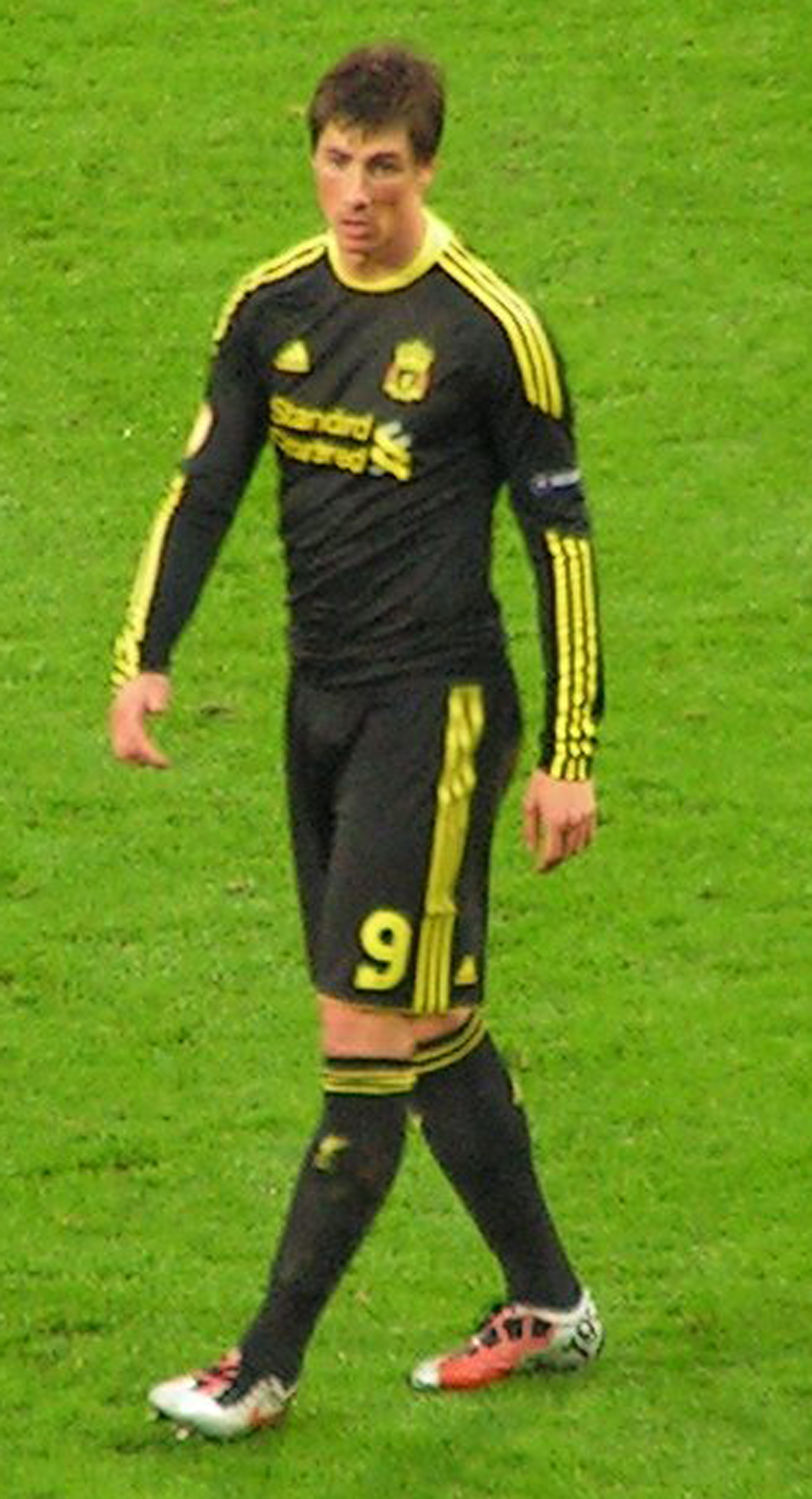 Fernando Torres in a Europa League match vs Utrecht